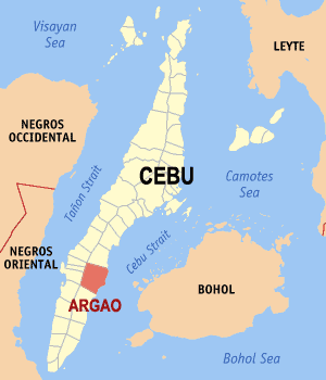 Map of Cebu showing the location of Argao